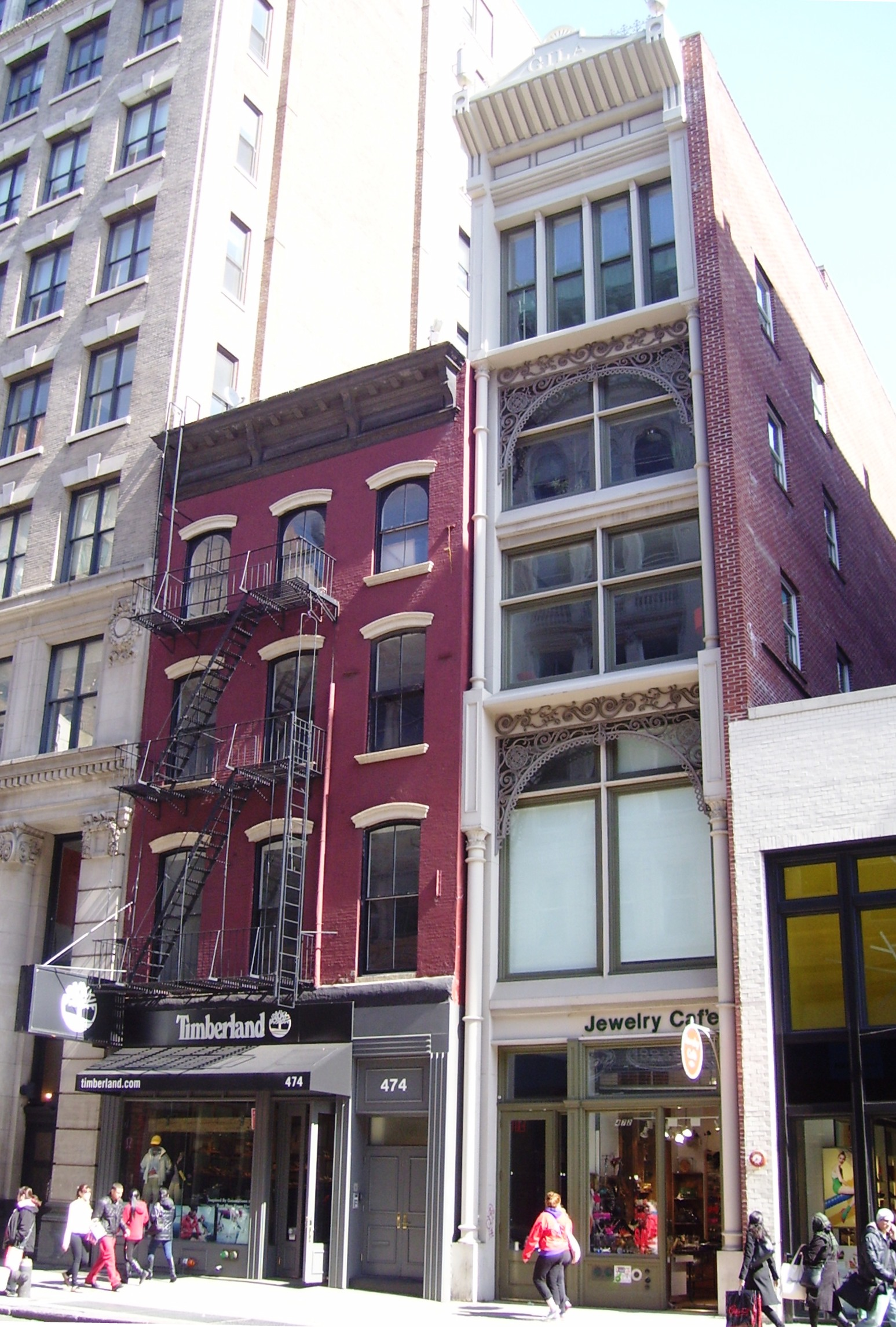 472 (right) and 474 (left) Broadway between Grand and Broome Streets in the SoHo neighborhood of Manhattan, New York City. 472 (right) was built in 1878 and was designed by William H. Cauvet as a store and loft building. It goes through to Crosby Street, where it is #30-36. The Broadway facade is cast iron, and the Crosby Street facade is brick. 474 (left) was built in 1863 and was designed by an unknown architect as a store and dwelling. Its facade is brick, with cast-iron cornices and storefront. Both buildings are located within the SoHo - Cast Iron Historic District. (Source: "NYCLPC SoHo - Cast-Iron Historic District Designation Report")